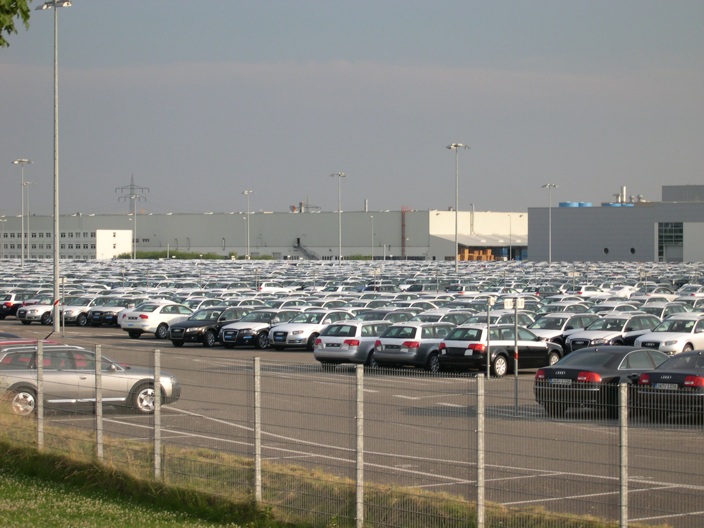 A view of the Audi HQ on the outskirts of Ingolstadt, Bayern, Germany. Cars waiting to be shipped